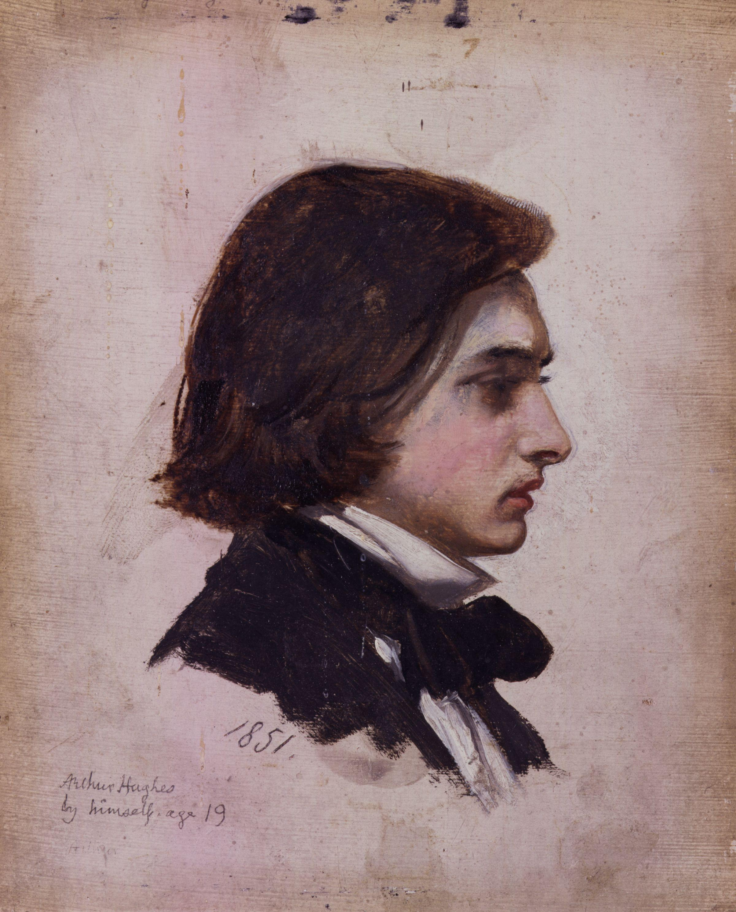 Arthur Hughes, by Arthur Hughes (died 1915), given to the National Portrait Gallery, London in 1935. Hughes was an English painter and illustrator associated with the Pre-Raphaelite Brotherhood. All images in this batch have been confirmed as author died before 1939 according to the official death date listed by the NPG.